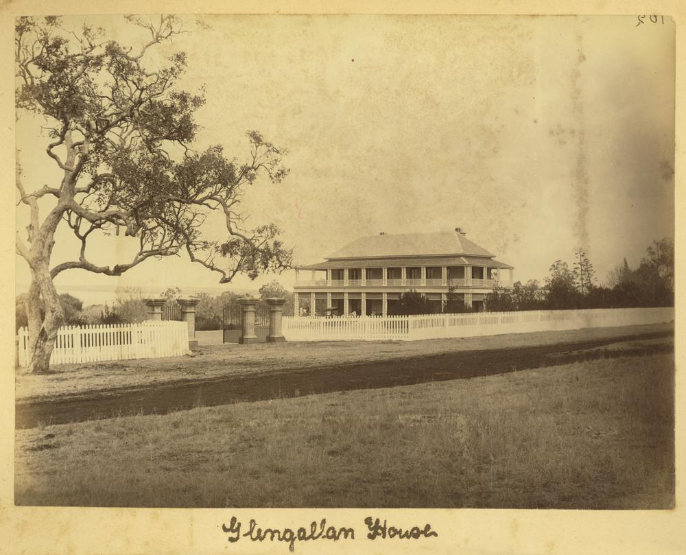 Glengallan House near Allora on the Darling Downs. Glengallan House, a two storey sandstone house, was built in 1867 for John Deuchar. Deuchar entered into a partnership with C. H. Marshall. Three years after the completion of the house in 1869, Deuchar was declared bankrupt and at the time of this photograph, C. H. Marshall and W. B. Slade were the owners.